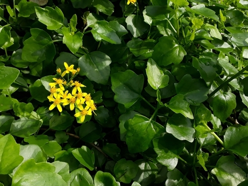 Vine produces yellow flowers